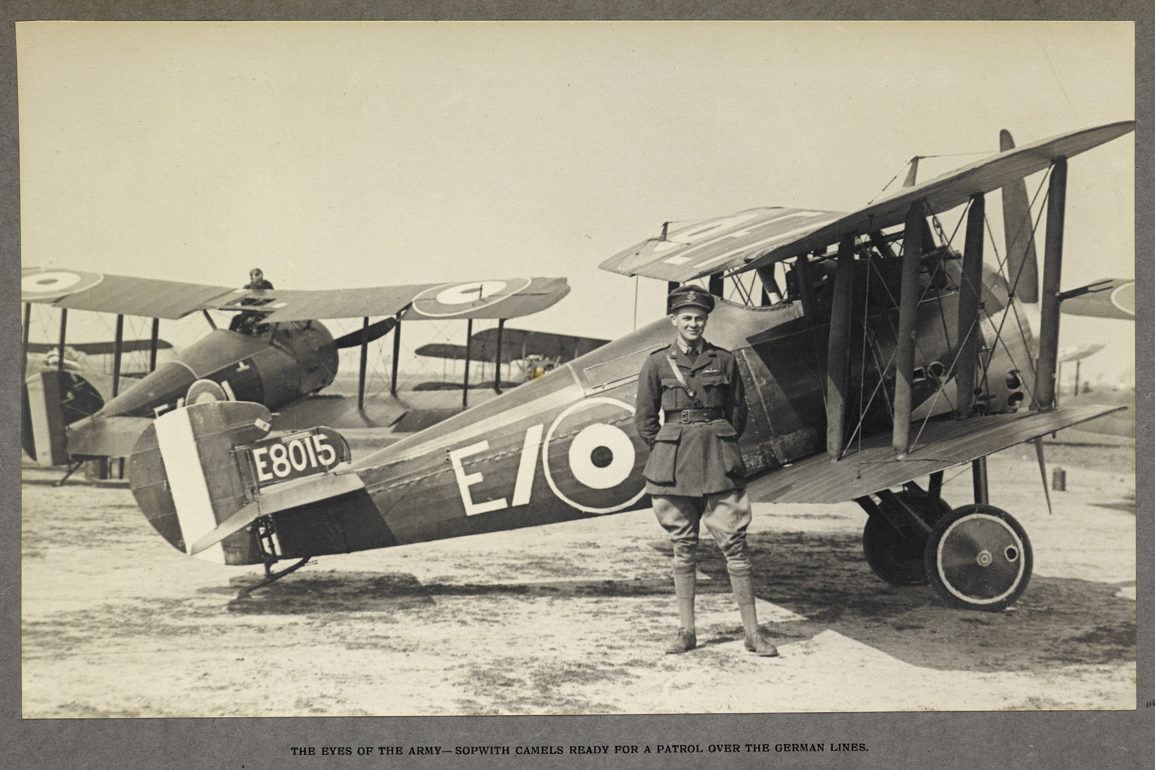 The eyes of the army - Sopwith Camels ready for a patrol over the German lines. View of aircraft and pilot. 1915. Collection note: The photographs appear in a variety of sizes, shapes and colours including shades of blue, green and brown. They record scenes of military life as experienced by the Indian and British armies in France during the First World War. Added: A stereo card version of this photograph was issued as #68 in Volume I of the set of 600 stereographs of the Great War issued after the war by Girdwood's company Realistic Travels - [1]. A copy in the National Army Museum is given the date 1917 (Accession no. NAM. 2001-02-256-68). The aircraft are in fact Sopwith Snipe, not Sopwith Camels, and only entered service in late 1918. E8015 was allocated to No. 43 Squadron RAF, and flown by E. Mulcair between October and November 1918. The aircraft was written off on 31 May 1922.